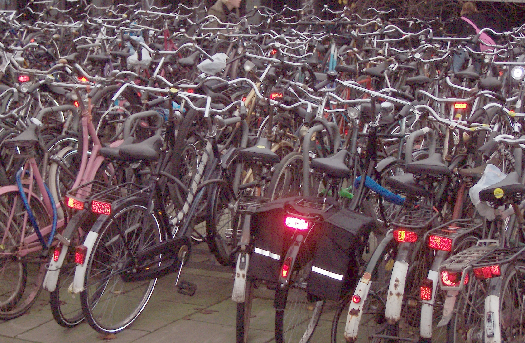 A crowd of parked bicycles in Amsterdam, Netherlands. Photo taken at 2004.Amsterdam